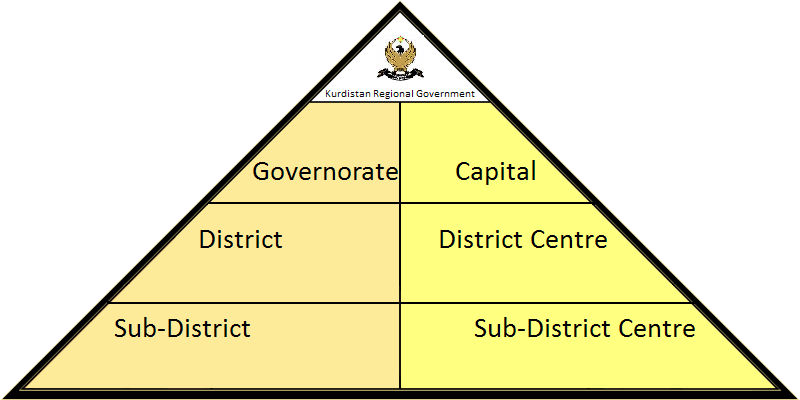 Administrative Divisions of Kurdistan